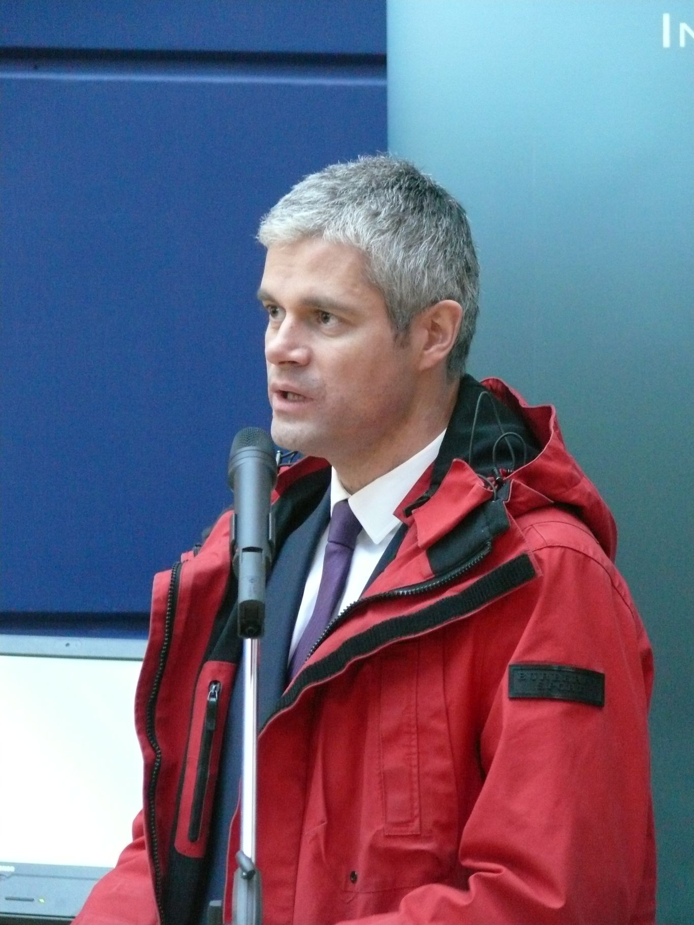 Visit of the Minister of Higher Education and Research, Laurent Wauquiez, at IEMN, in Villeneuve-d'Ascq (Nord, France).